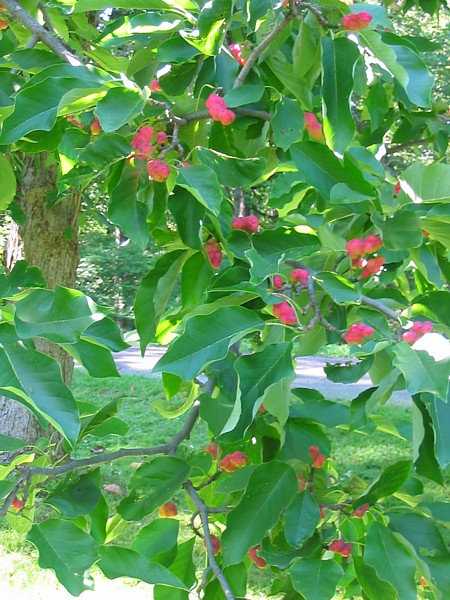 The fruit of Magnolia acuminata.